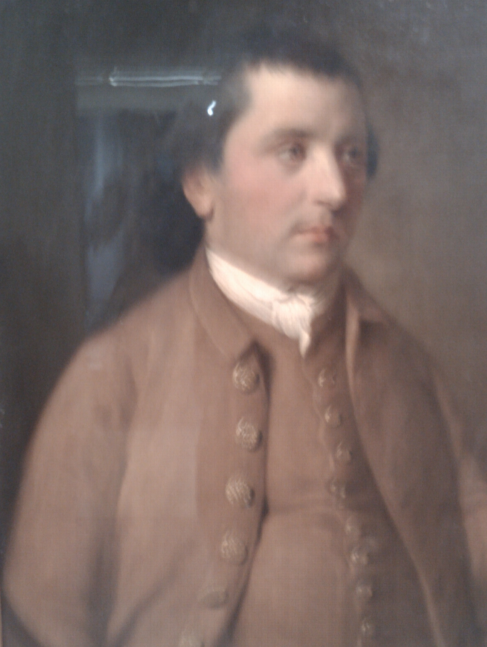 Jeremy Bentham by Joseph Wright